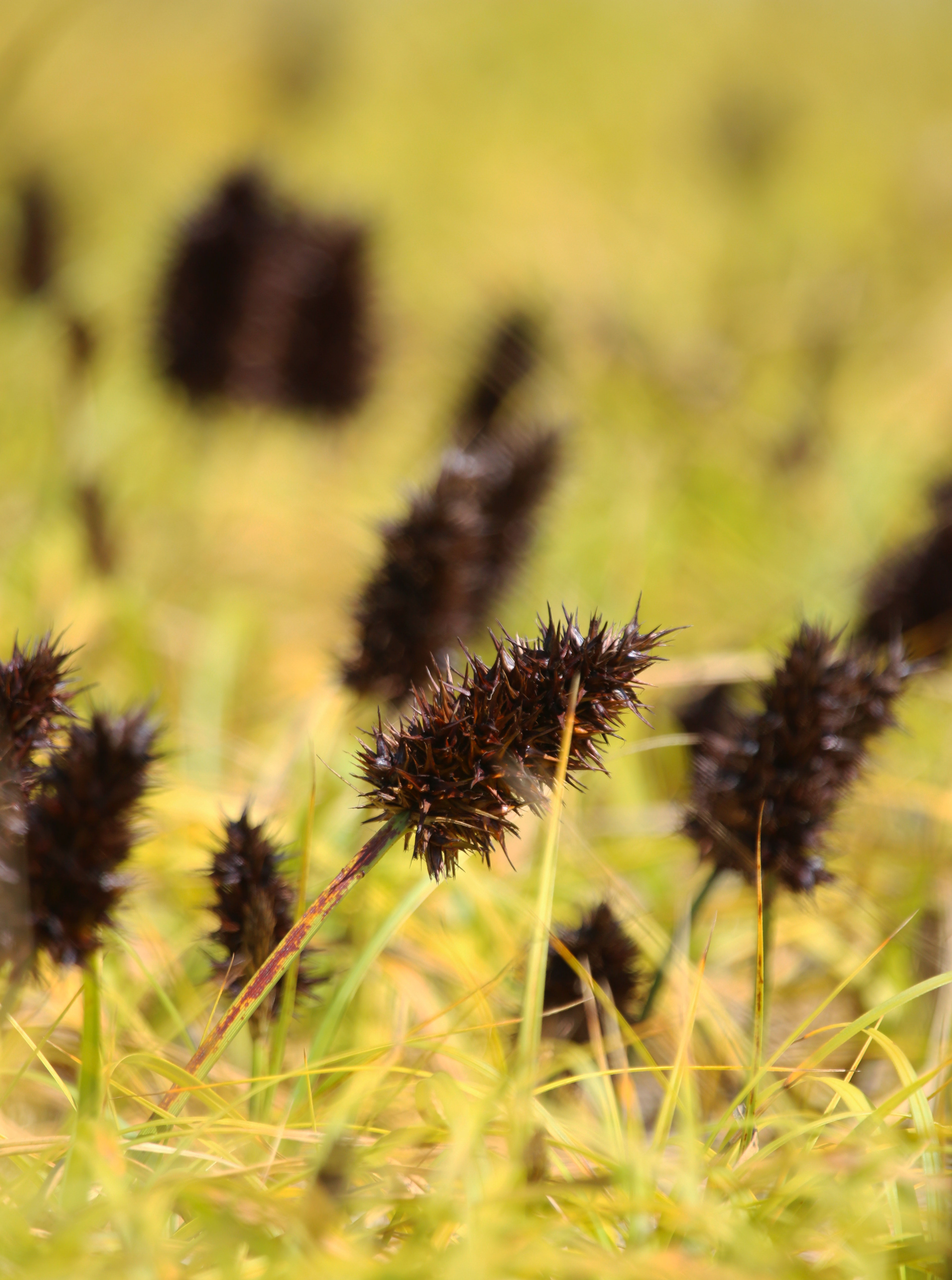 Bighead sedge (Carex macrocephala) You are free to use this image with the following photo credit: Peter Pearsall/U.S. Fish and Wildlife Service